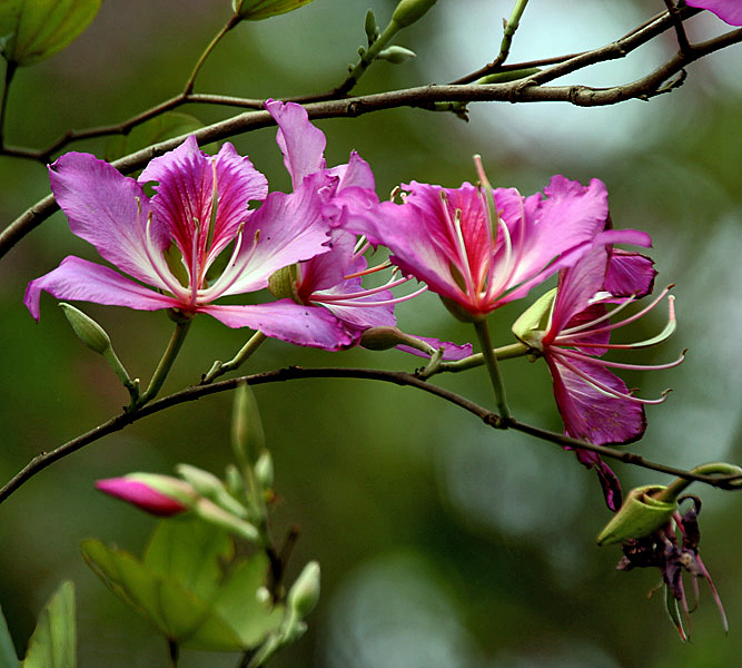 Kachnar Bauhinia variegata. At Botanical Gardens, Kolkata, West Bengal, India.